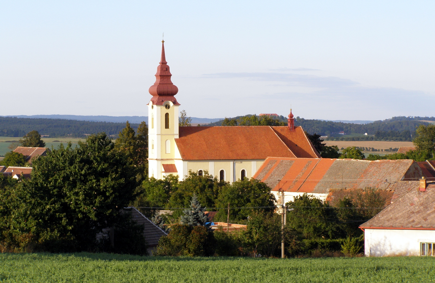 Babice village (Třebíč district). Holy Trinity church